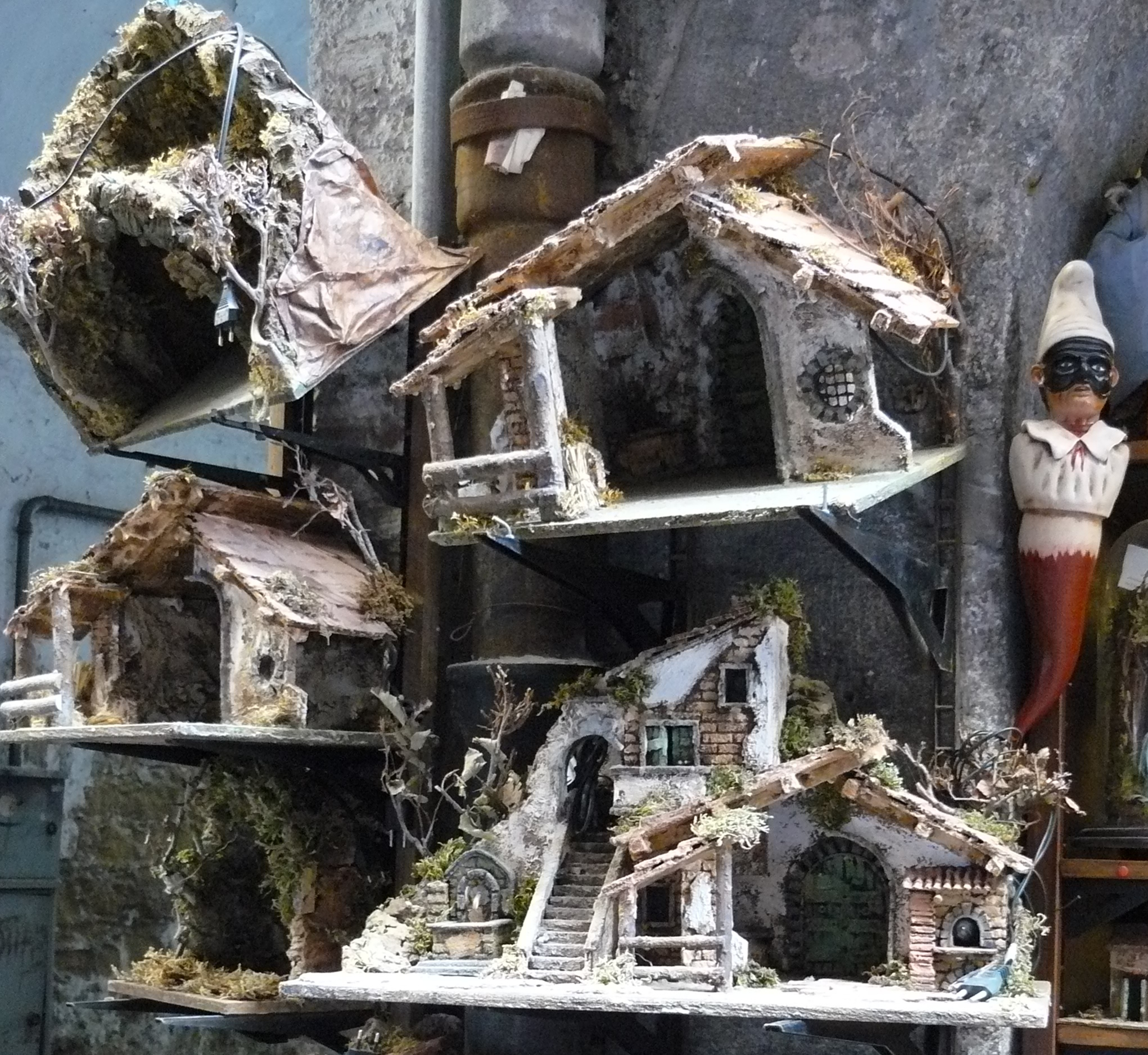 Kitsch-seller in Naples, Italy